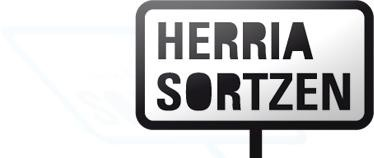 herria sortzen